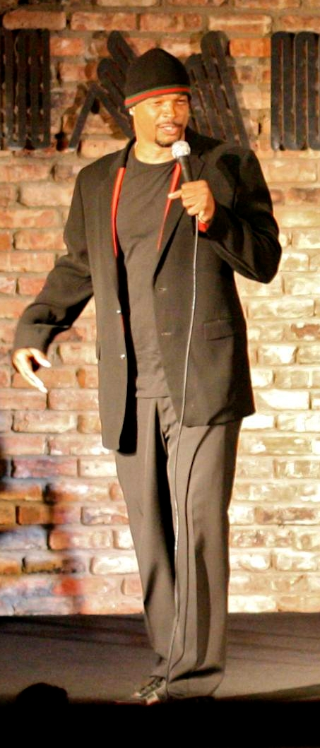 Damon Wayans at the Improv comedy club in Houston